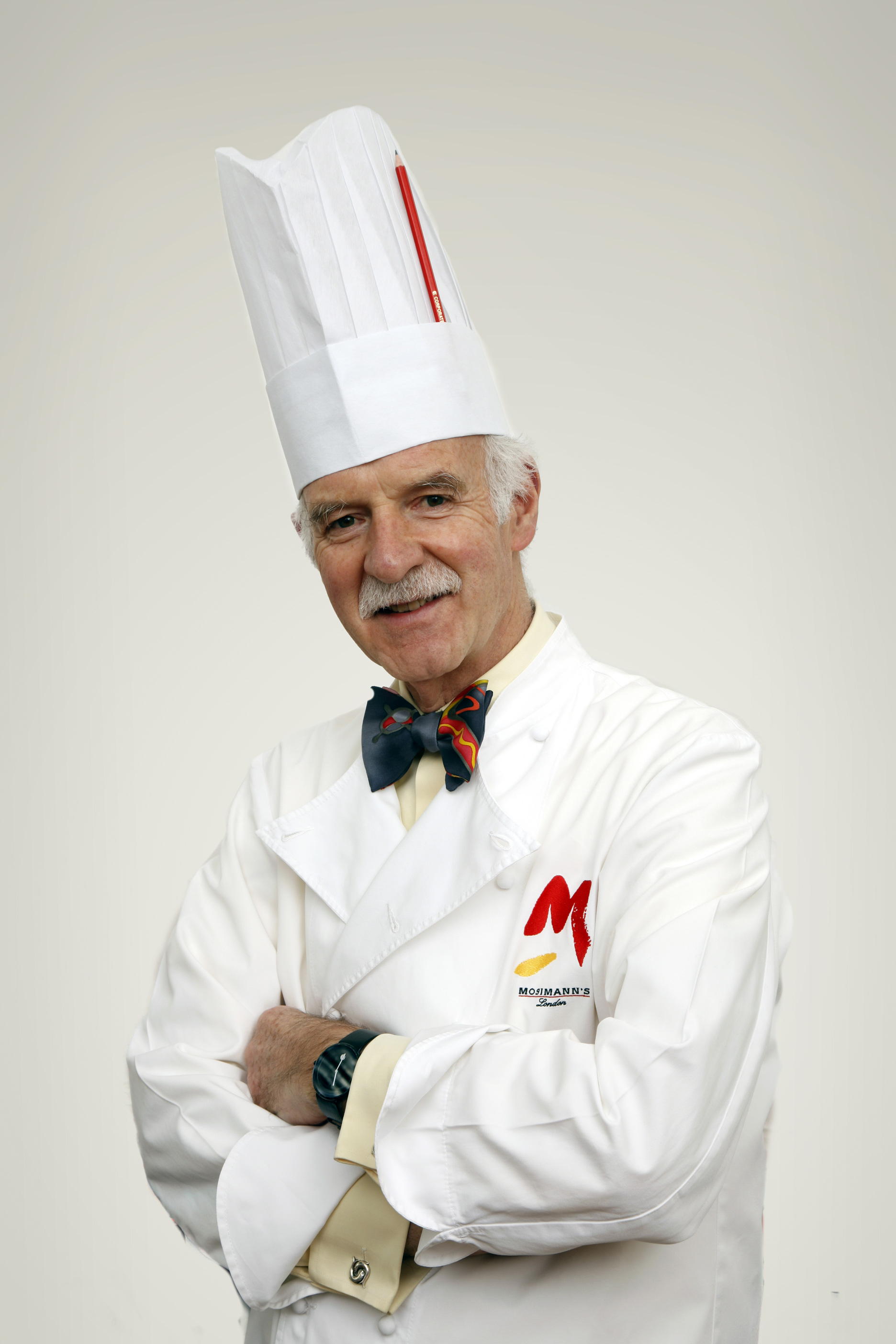 Taken at Mosimann's, the exclusive dining club in London's Belgravia